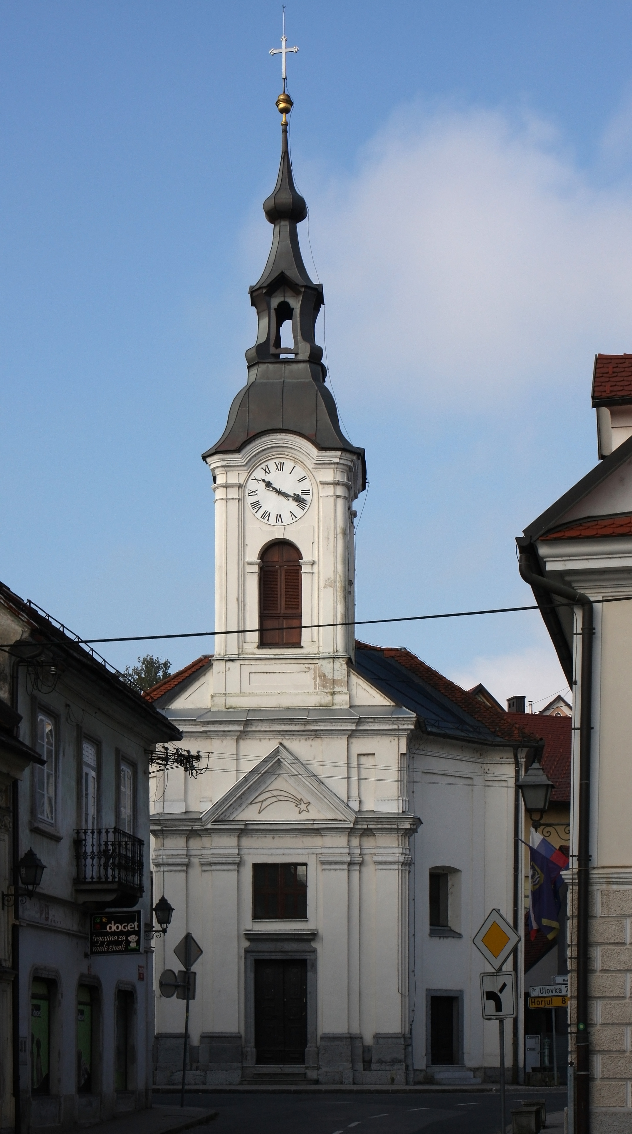 Front facade of St. Leonard Church, Vrhnika, Slovenia.